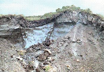 The ice wedge in permafrost.